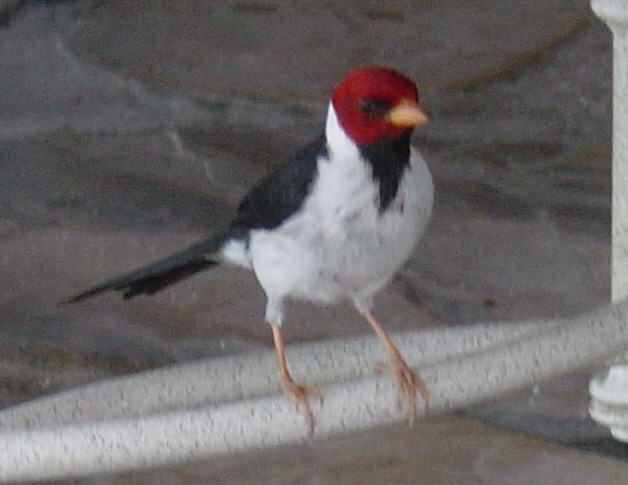 Yellow-billed Cardinal (Paroaria capitata) found on big island of Hawaii.